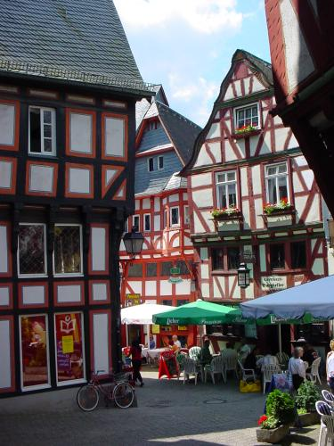 The city of Limburg an der Lahn